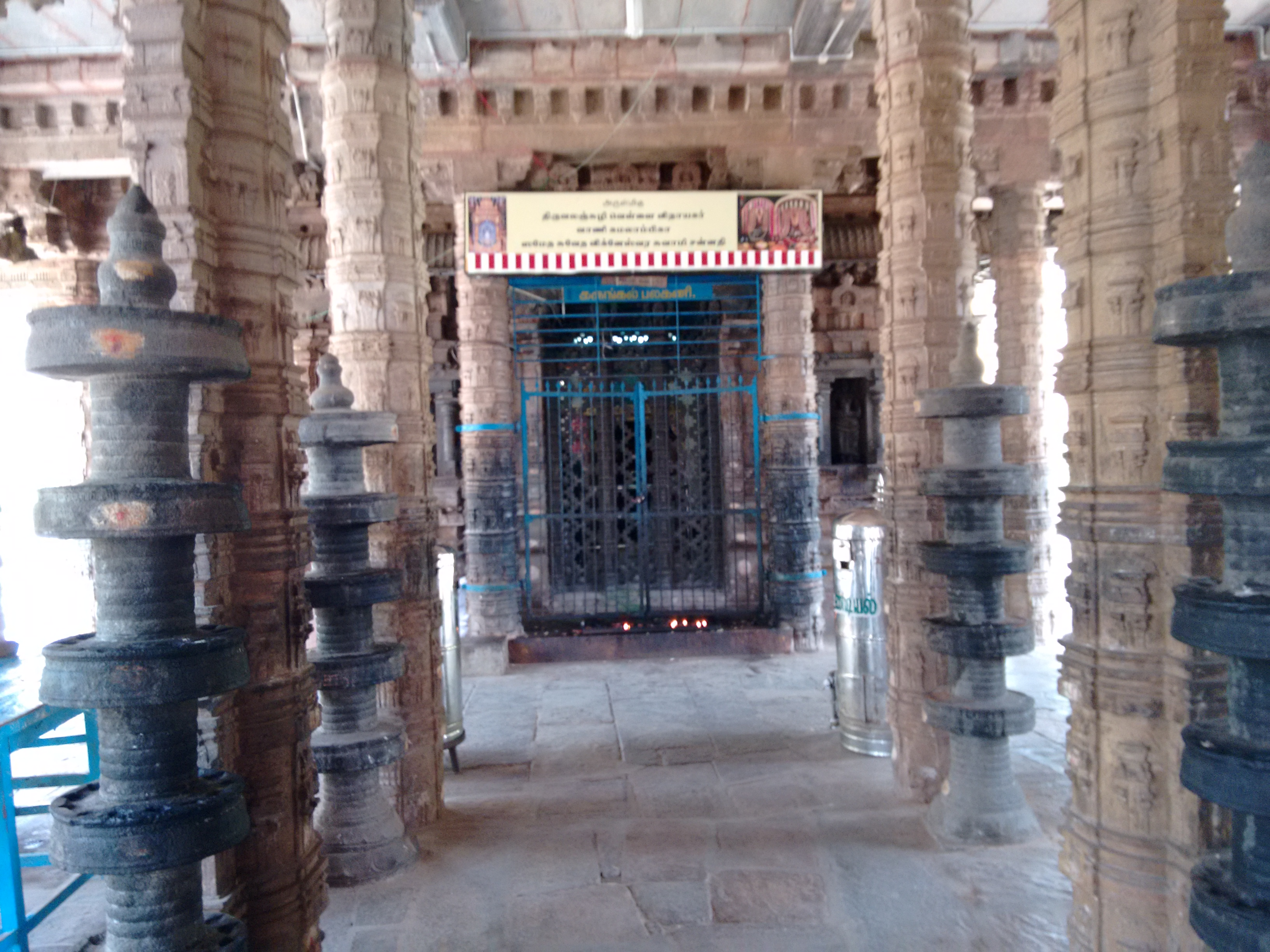 திருவலஞ்சுழி வெள்ளைவிநாயகர் கோயில் Tiruvalanchuli Vellaivinayaka temple